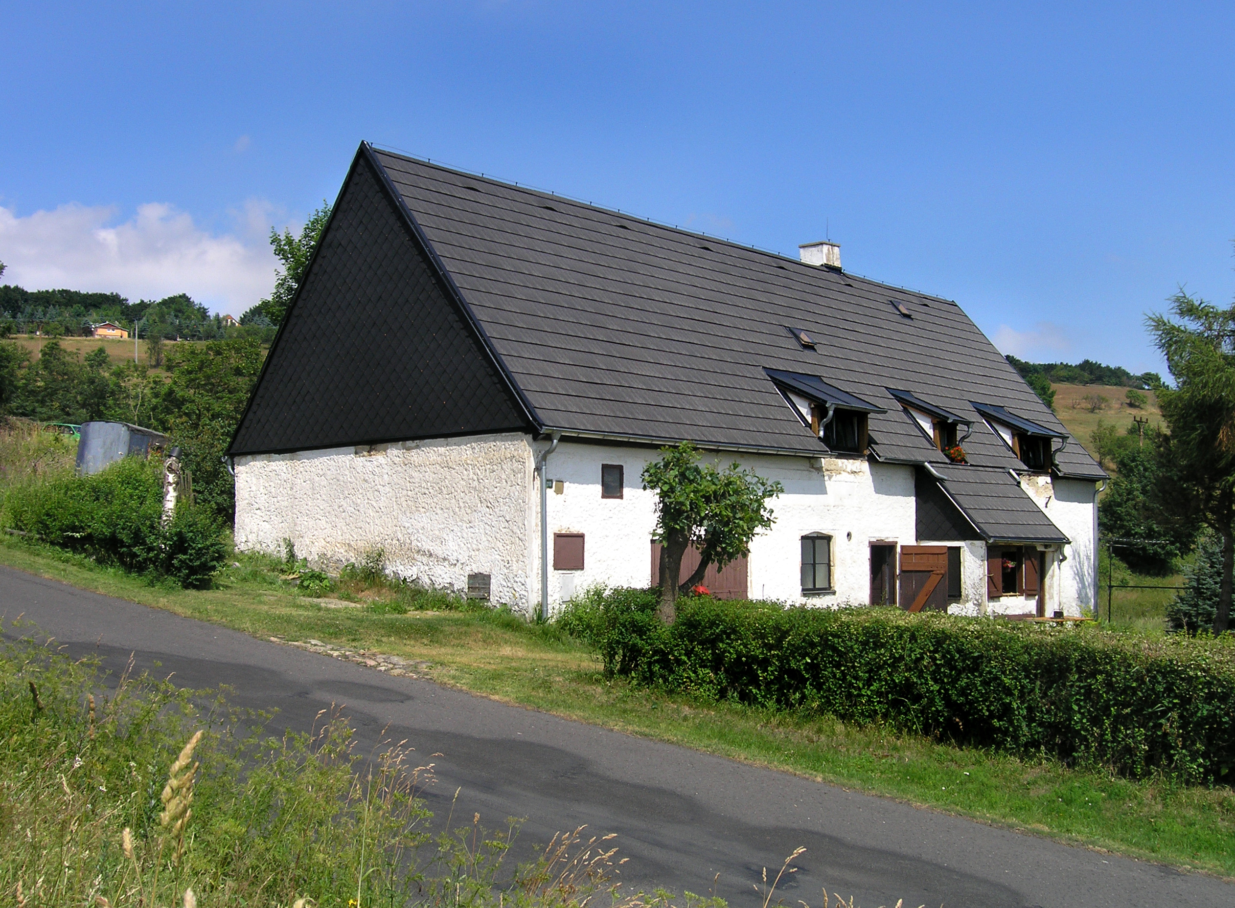 Dlouhá Louka, part of Osek town, Czech Republic